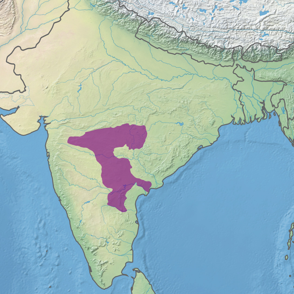 Ecoregion IM0201 - Central Deccan Plateau dry deciduous forests (in purple)